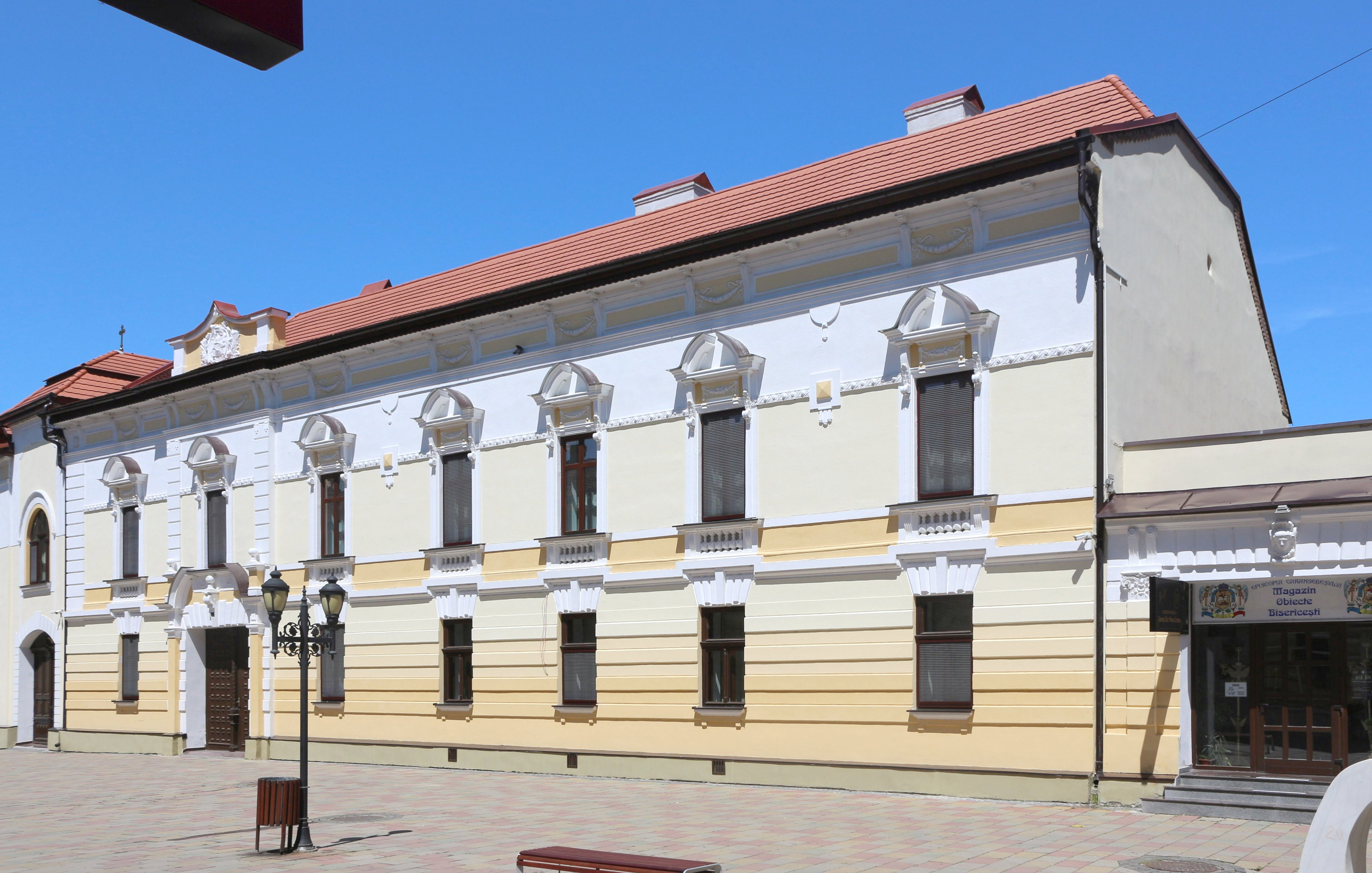 Former Border Guard House, now the headquarters of the Romanian Orthodox Archdiocese, Eiscopiei St., no. 8, Catransebeș, Romania, built in the middle of 18th century.